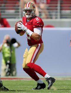 Photo of Blaine Gabbert playing for the San Francisco 49ers